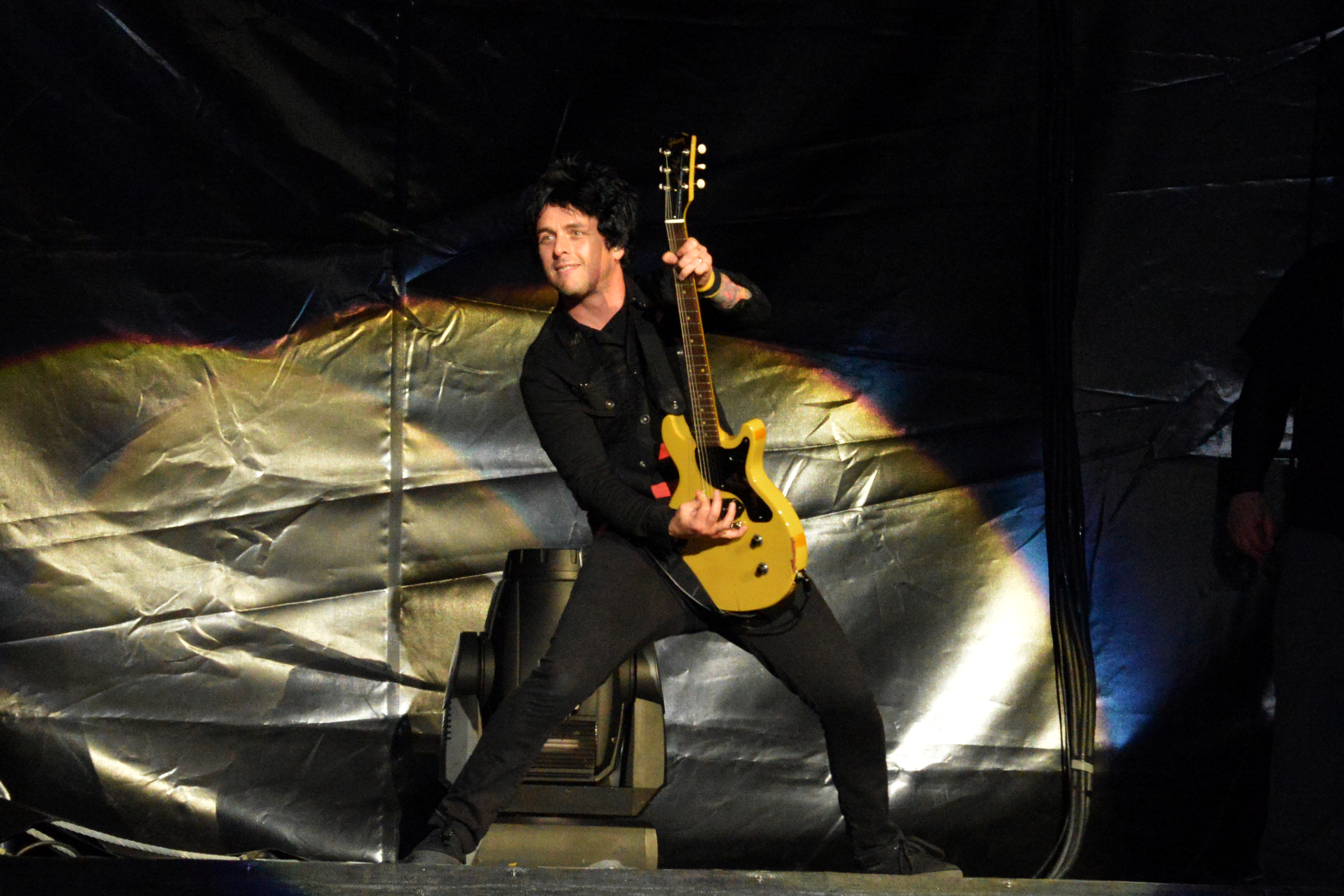 Billie Joe Armstrong (Green Day) At Bråvalla Festival In Norrköping, Sweden